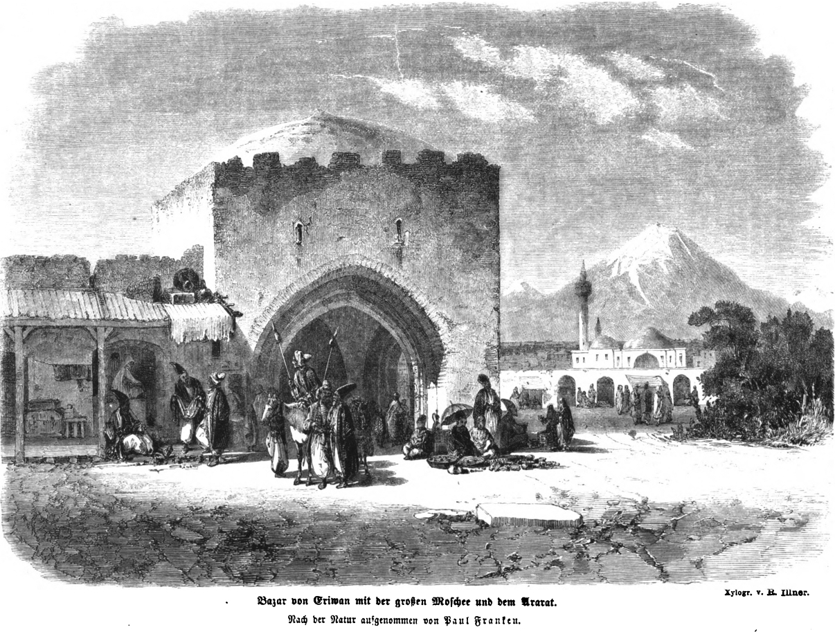 caption: "Basar von Eriwan mit der großen Moschee und dem Ararat.Nach der Natur aufgenommen von Paul Franken."